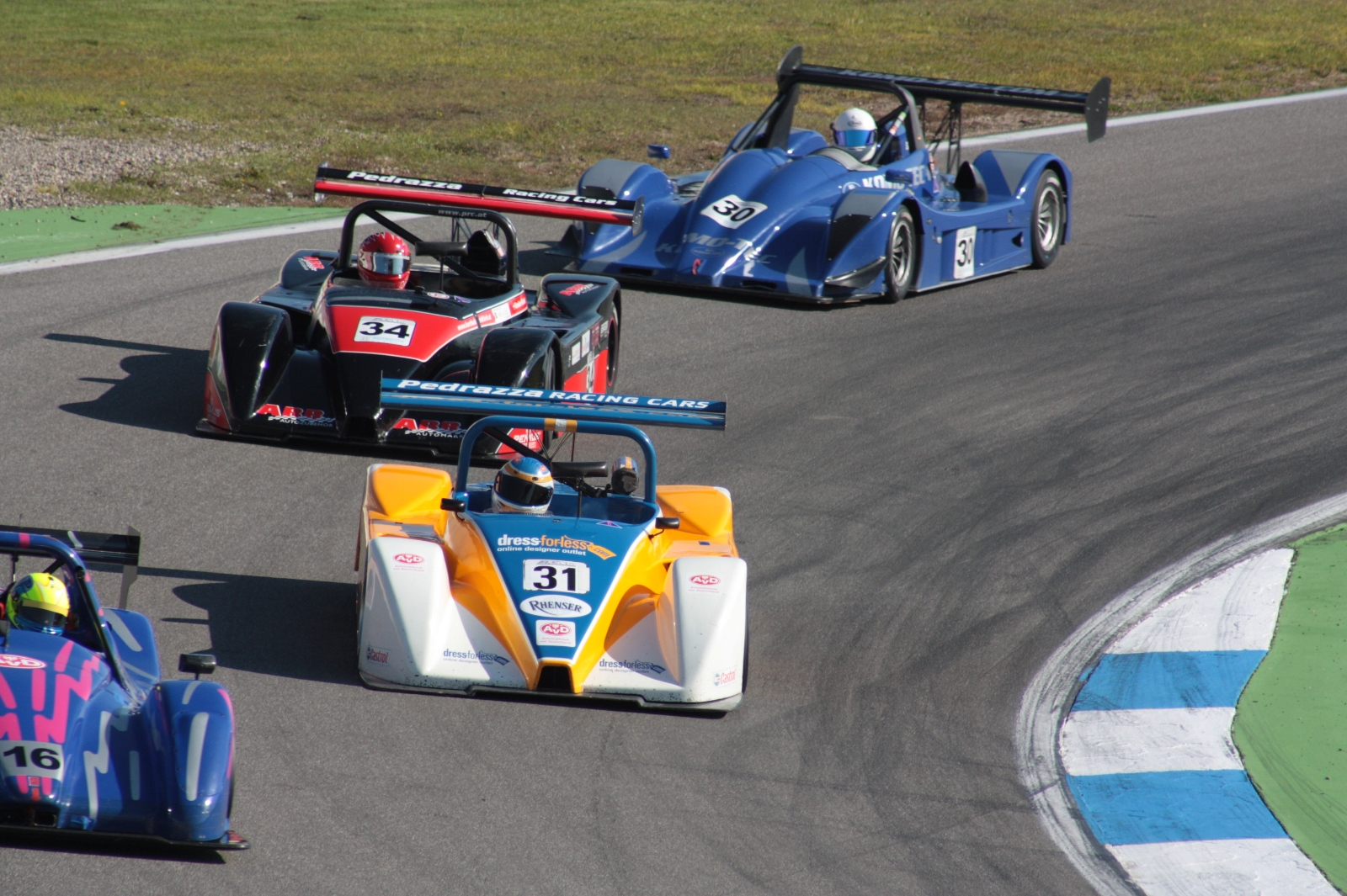 several Group CN cars at second Sports Car Challenge race at Hockenheim October 2010.